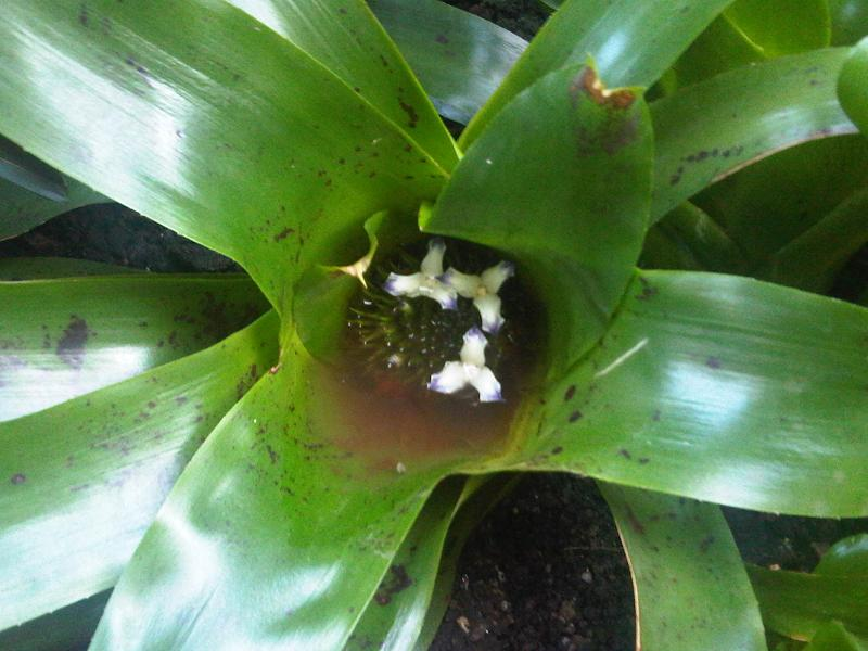 Neoregelia kautskyi in Kew Gardens, England.